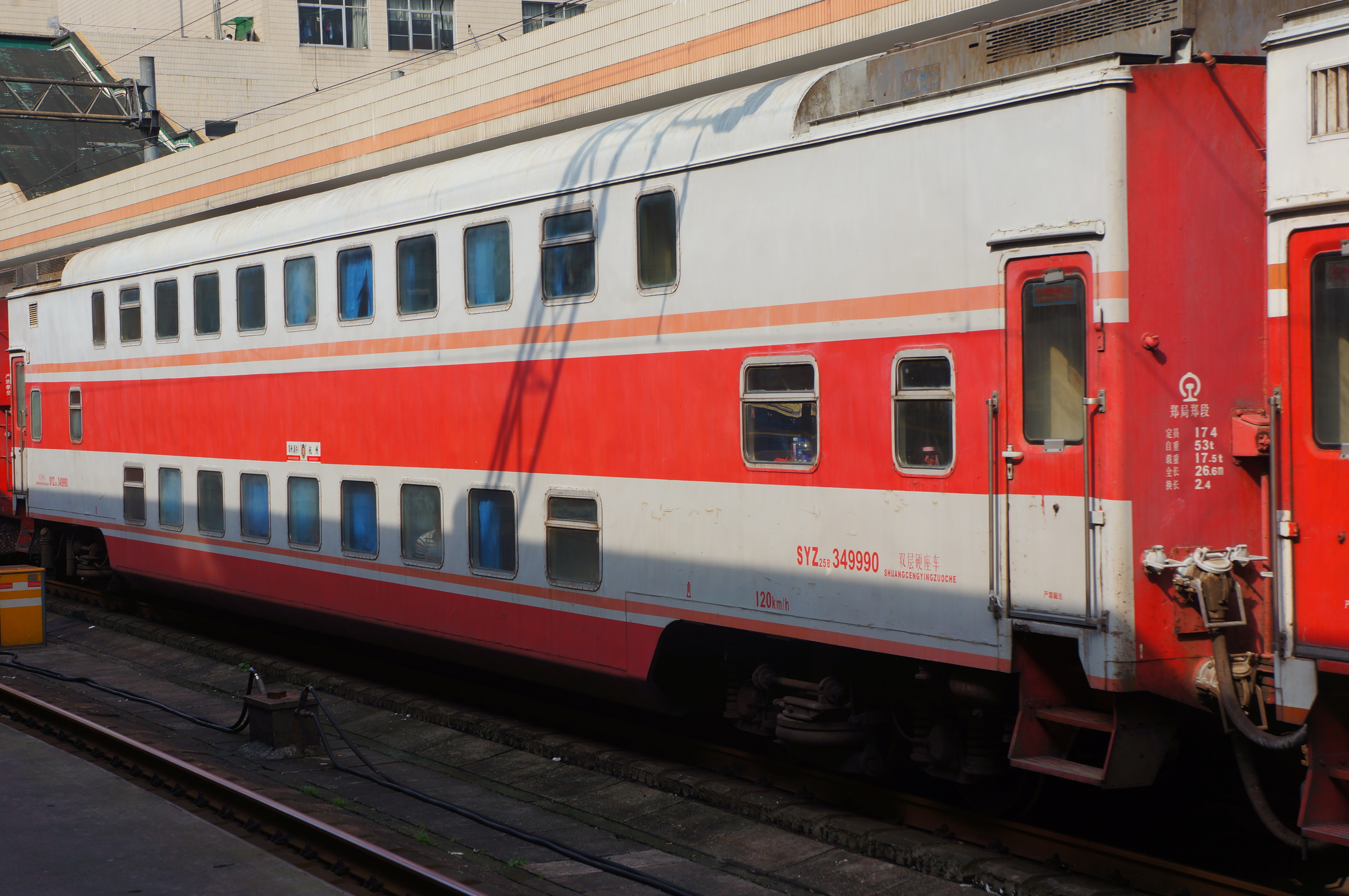 201608 SYZ25G by Zhengzhou Rolling Stock Depot at HZH